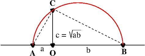 Geometric construction of square root of product ab